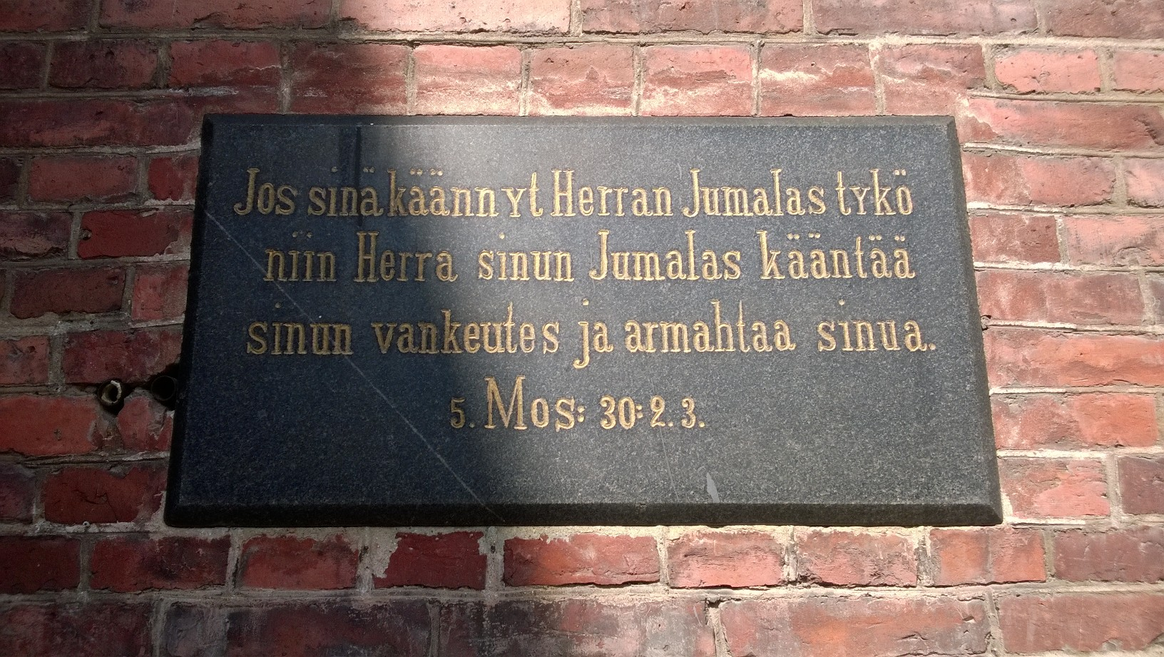 Sörnäisten of the prison wall of the verse noted from the Bible 5 Mos: 30:2.3